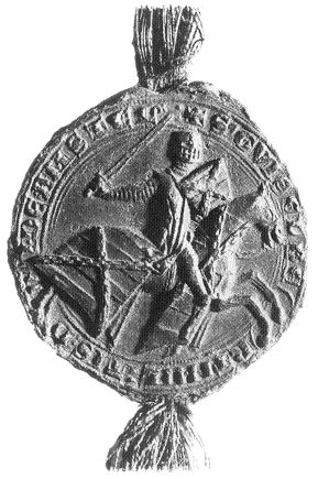 Seal of Gijsbrecht IV van Amstel